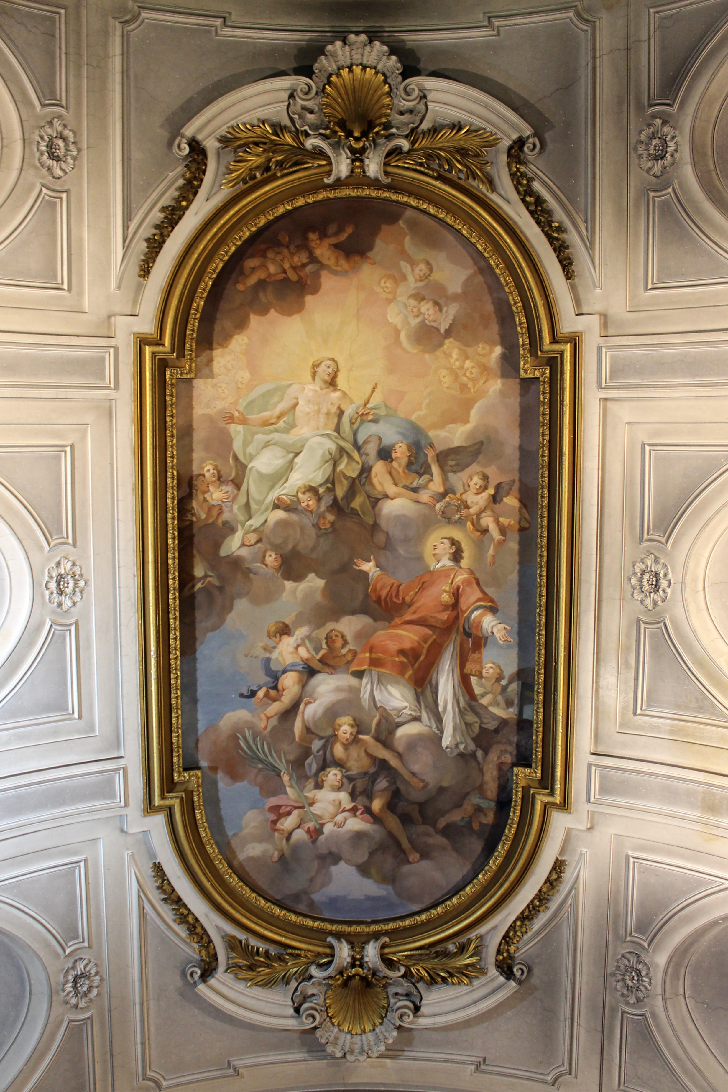 Ceiling fresco of St. Lawrence in Glory by Antonio Bicchierai. Located in the church of San Lorenzo in Panisperna in Rome.